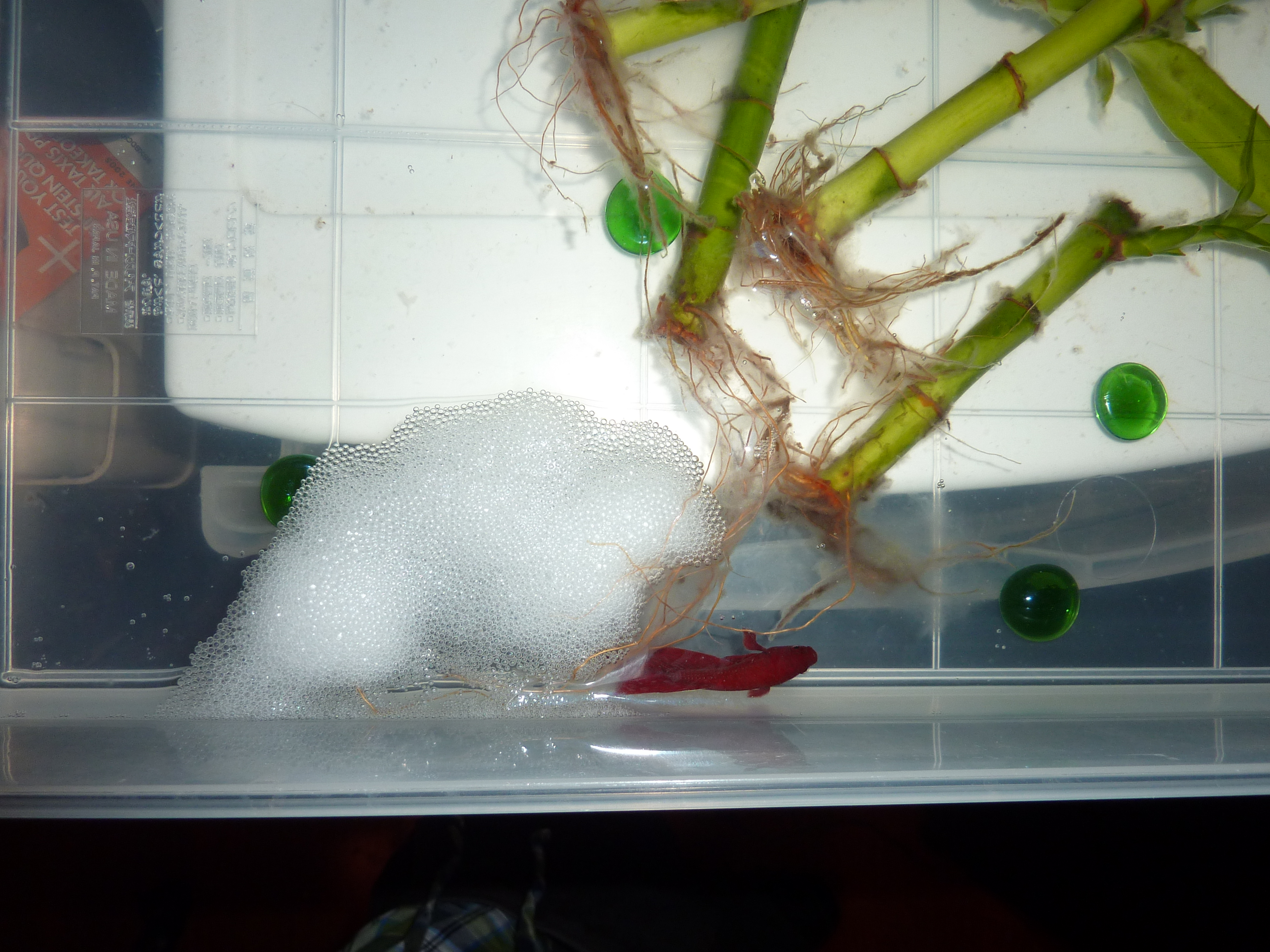 Male Betta splendens fish with his bubblenest just prior to a water change.